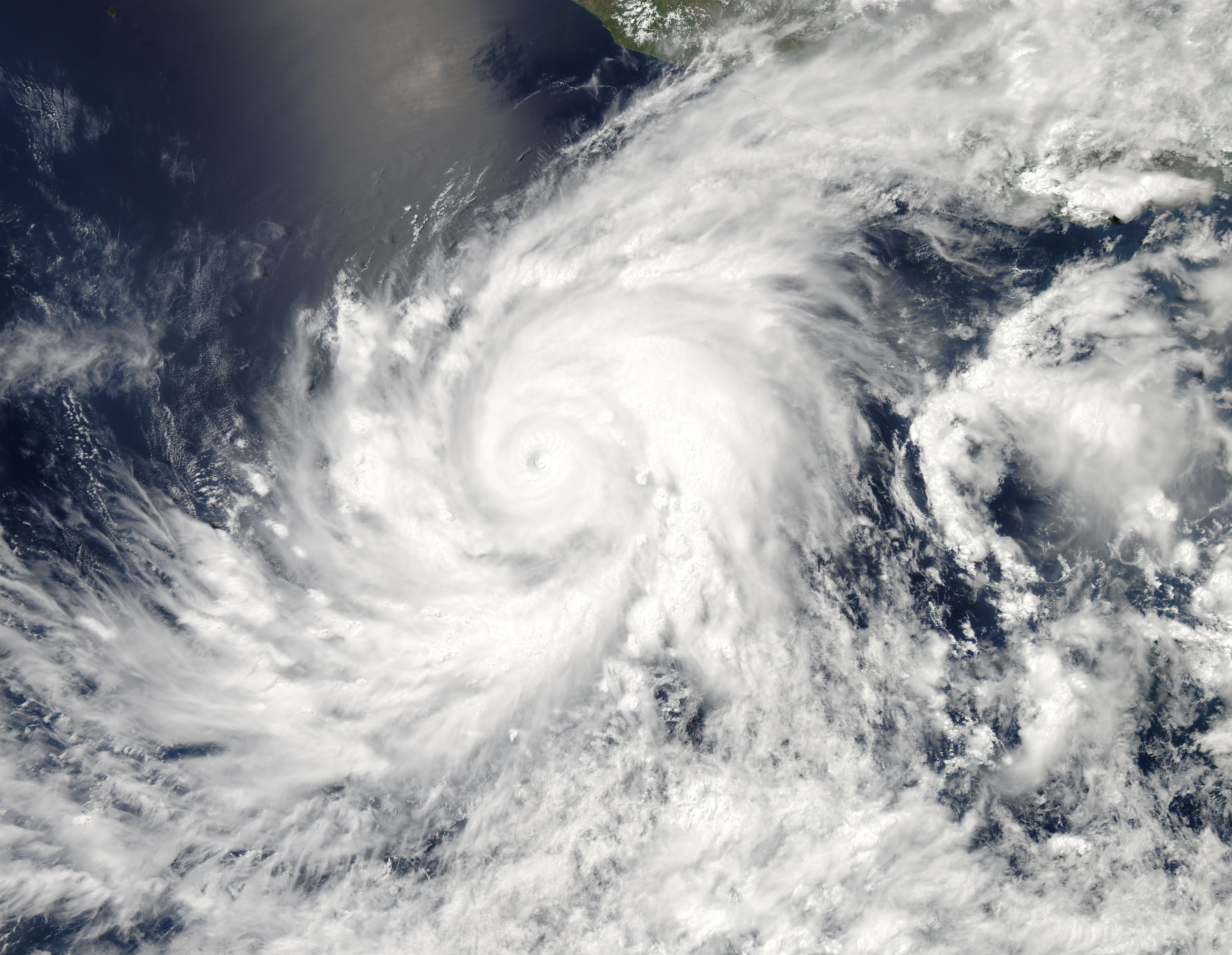 Hurricane Blanca (02E) off Mexico: At 1:35 p.m. local time (20:25 Universal Time ), on June 3, 2015, the Moderate Resolution Imaging Spectroradiometer (MODIS) on NASA’s Aqua satellite acquired this natural-color image of Hurricane Blanca off the coast of Mexico. The storm is the earliest second hurricane on record for the eastern Pacific Ocean. After intensifying rapidly, Blanca then weakened while passing over an area of upwelling. Forecasters expect the storm to strengthen as it moves north in the coming days.[1]